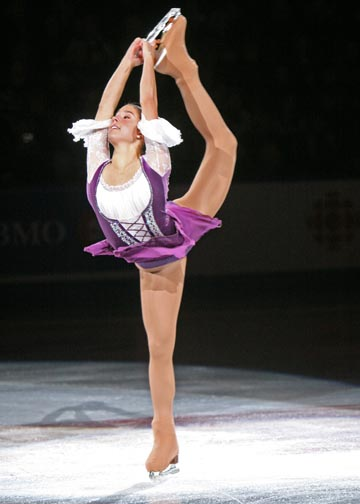 Alissa Czisny performs a Biellmann spin during her exhibition program at the 2008 Skate Canada International.